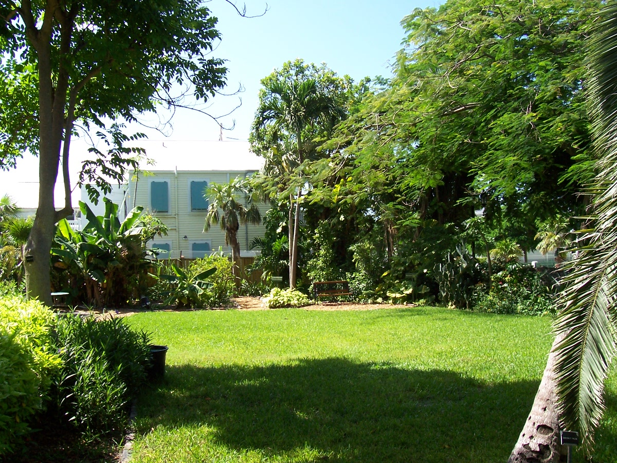 A view of the side yard of the Ernest Hemingway House. The picture was taken from the Hemingway House - the house shown in the picture is a neighbor's.